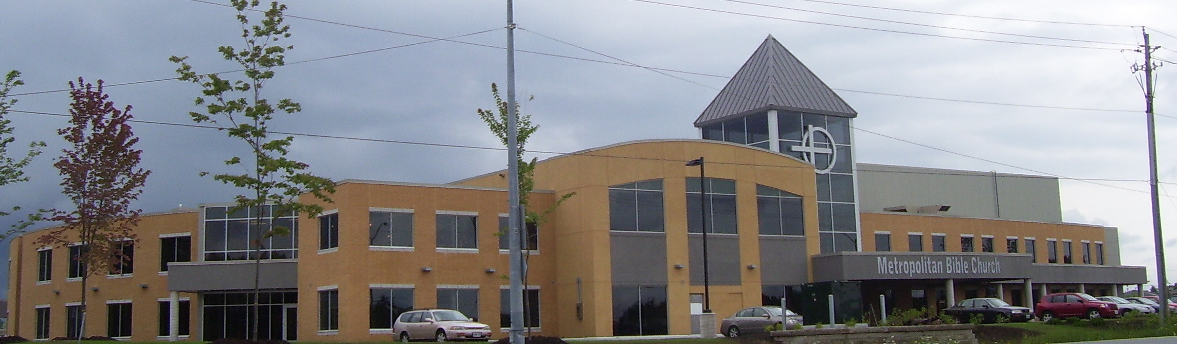 A picture of the new Metropolitan Bible Church building.